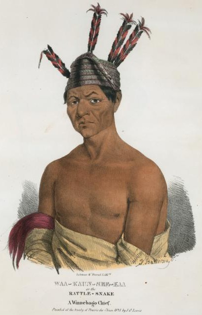 Lithograph usually identified as Winnebago orator Waukon Decorah, painted at the 1825 Prairie du Chien treaty conference by James Otto Lewis.